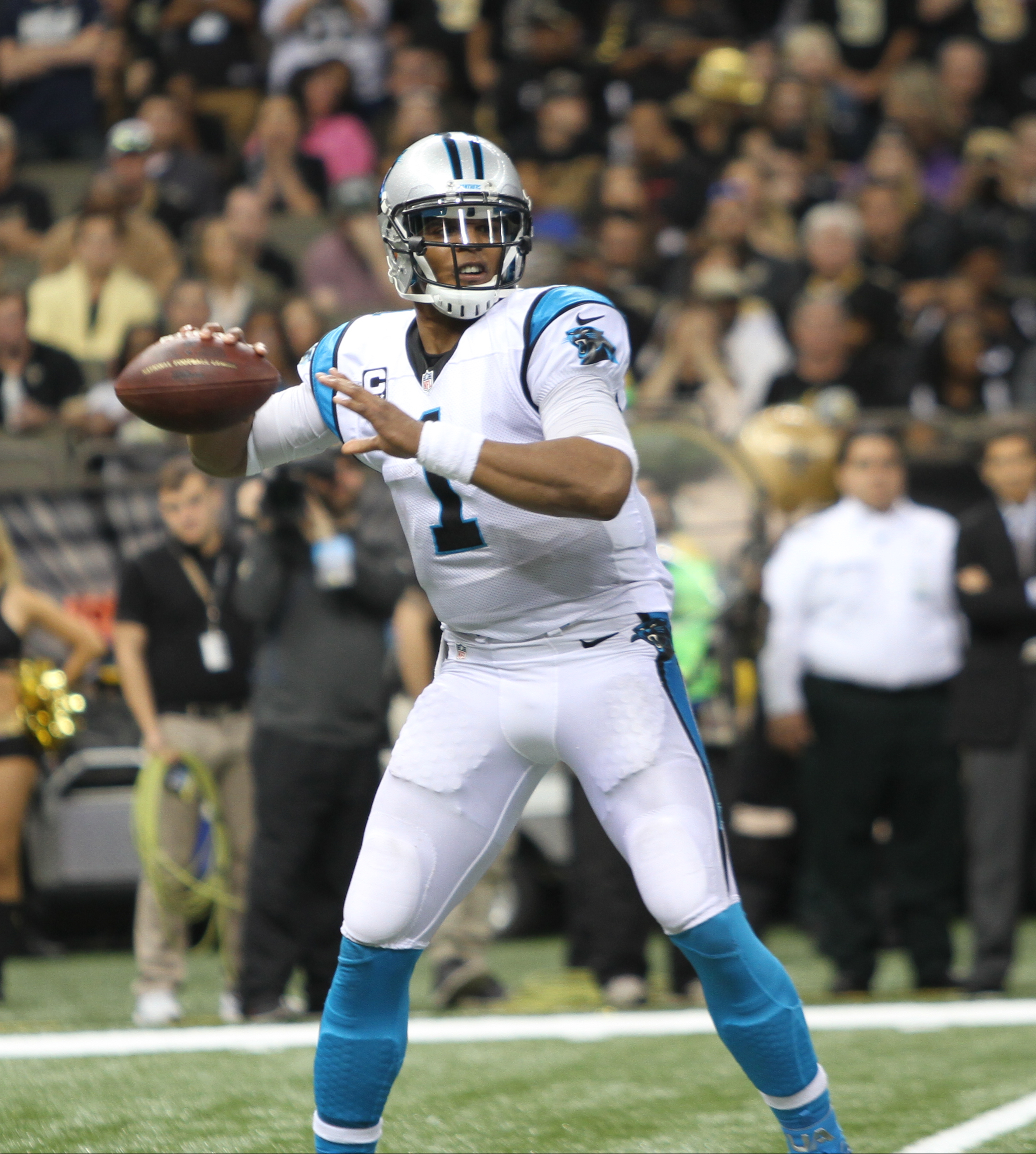 New Orleans Saints vs Carolina Panthers, December 6, 2015, Tammy Anthony Baker, Photographer